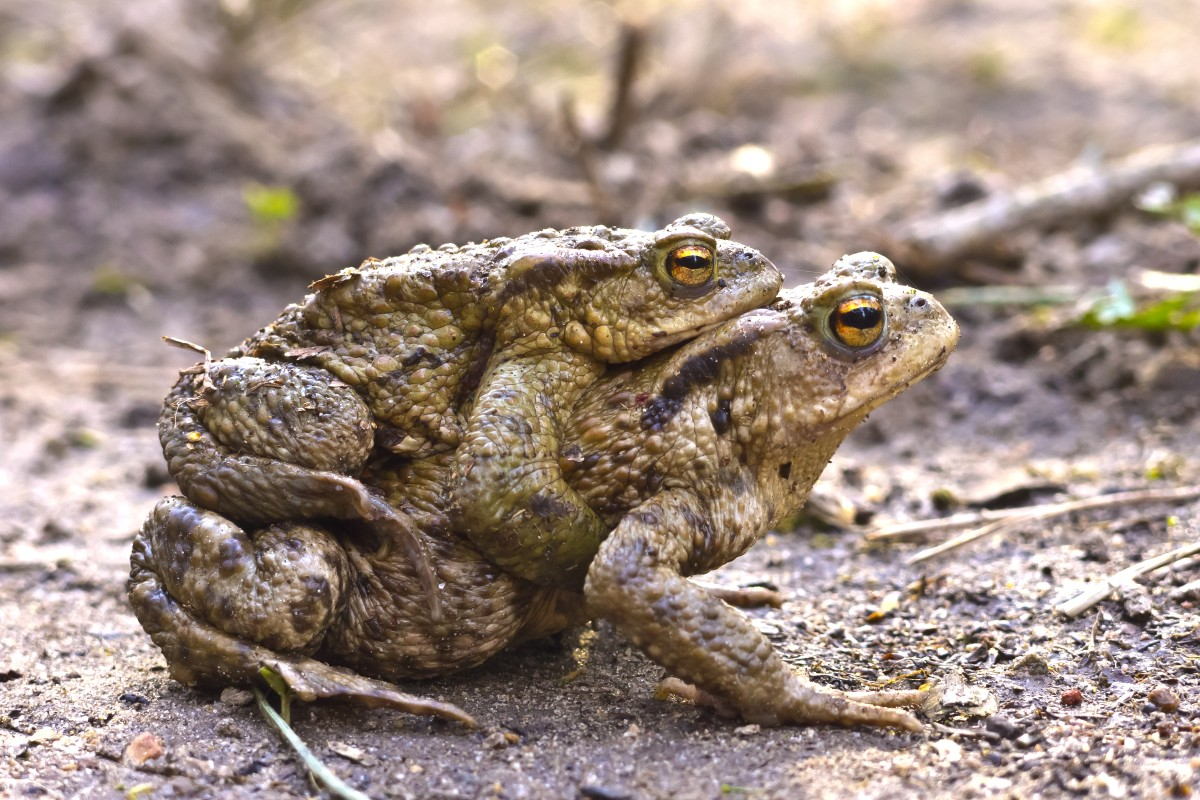 Common toads mating